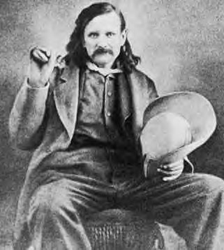 Jack Swilling, founder of phoenix - this picture is all over the internet